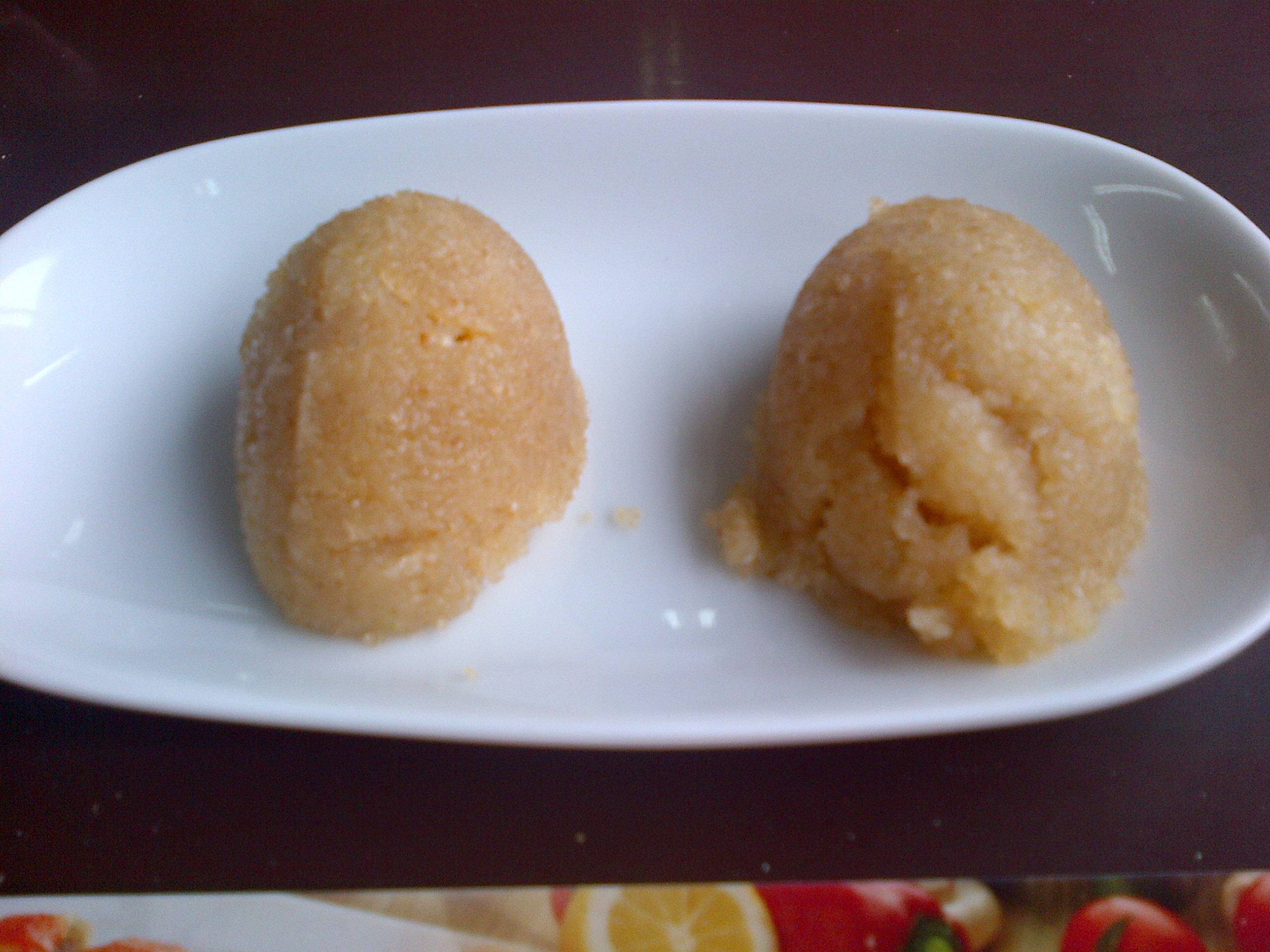 Semolina helva, or "irmik helvası", from Turkish cuisine.